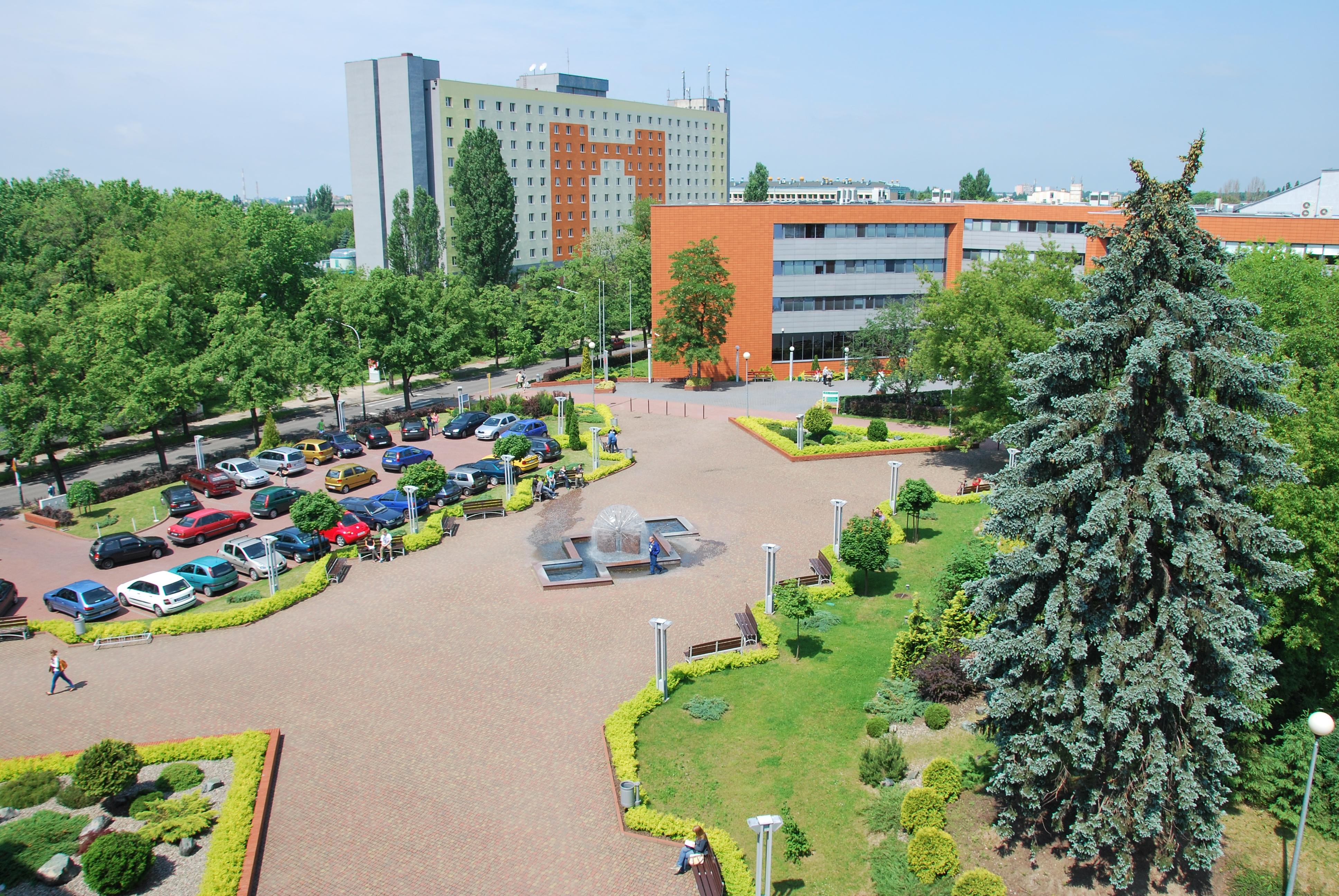 Square next to University Library in Łódź